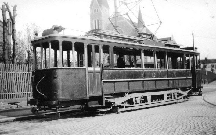 Kristiania Sporveisselskab no. 62 (Class H) in Sporveisgata during test runs.